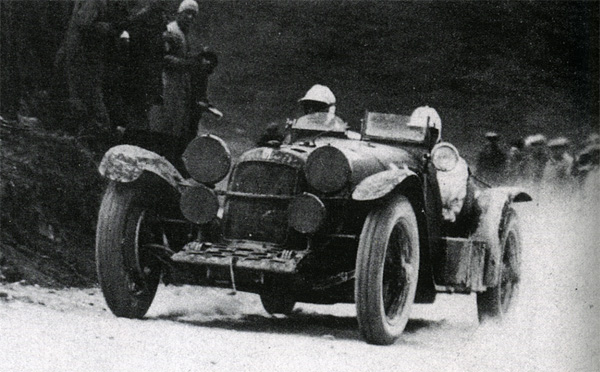 Aymo Maggi in Maserati Tipo 26B MM at 1928 Mille Miglia. Co-driver was Ernesto Maserati. They did not finish.[1] This was one of the four 26B MM ("MM" for Mille Miglia) that were made in 1928, it had a 2.1 litre engine and roadster body with cycle wings, headlamps, foldable hood and other goodies for long trips.[2] Which of the Maserati brothers that were co-driver here? One source says it was Ernesto.[3]